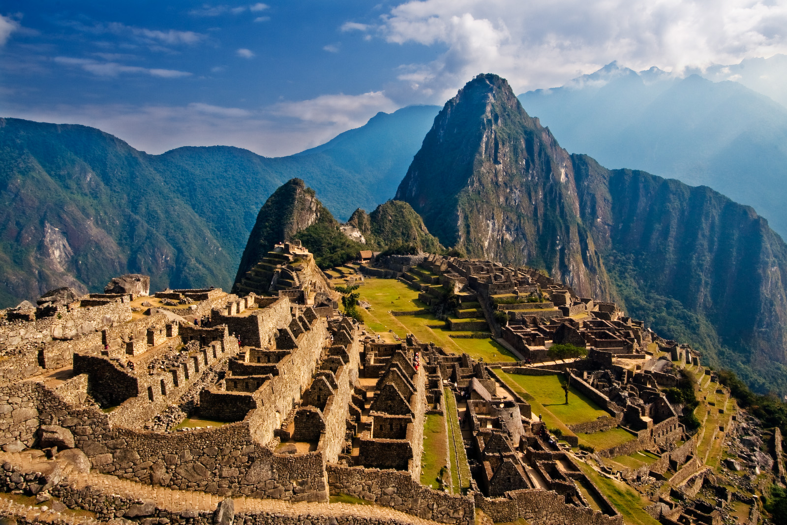 Early morning in wonderful Machu Picchu